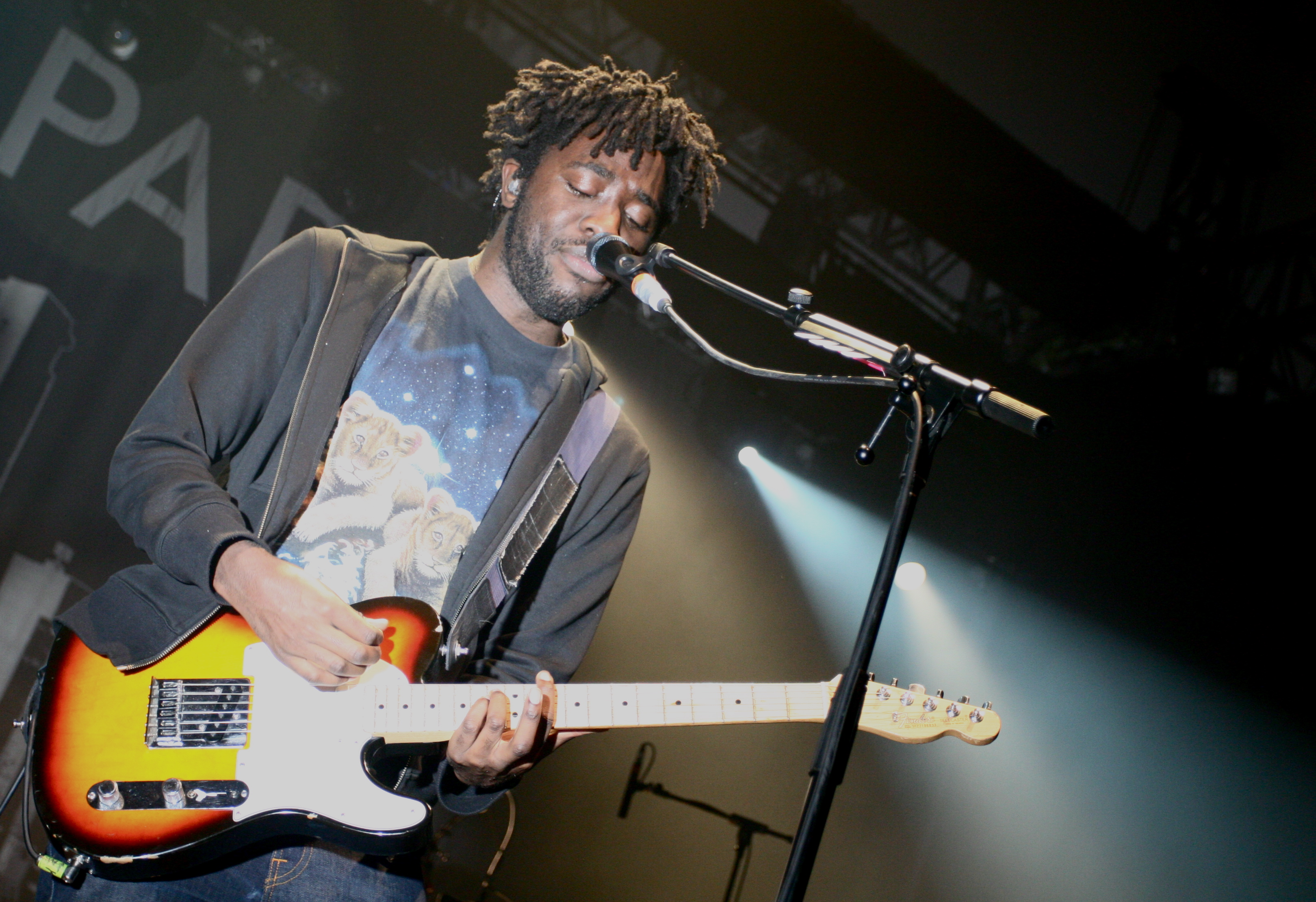 Kele Okereke of British indie rock band Bloc Party on stage in Barcelona, November 26, 2007.